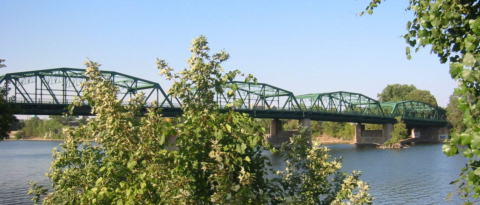 The 1958 Lowry Avenue Bridge crossing the Mississippi River in Minneapolis, Minnesota. This picture shows four of the five truss spans.